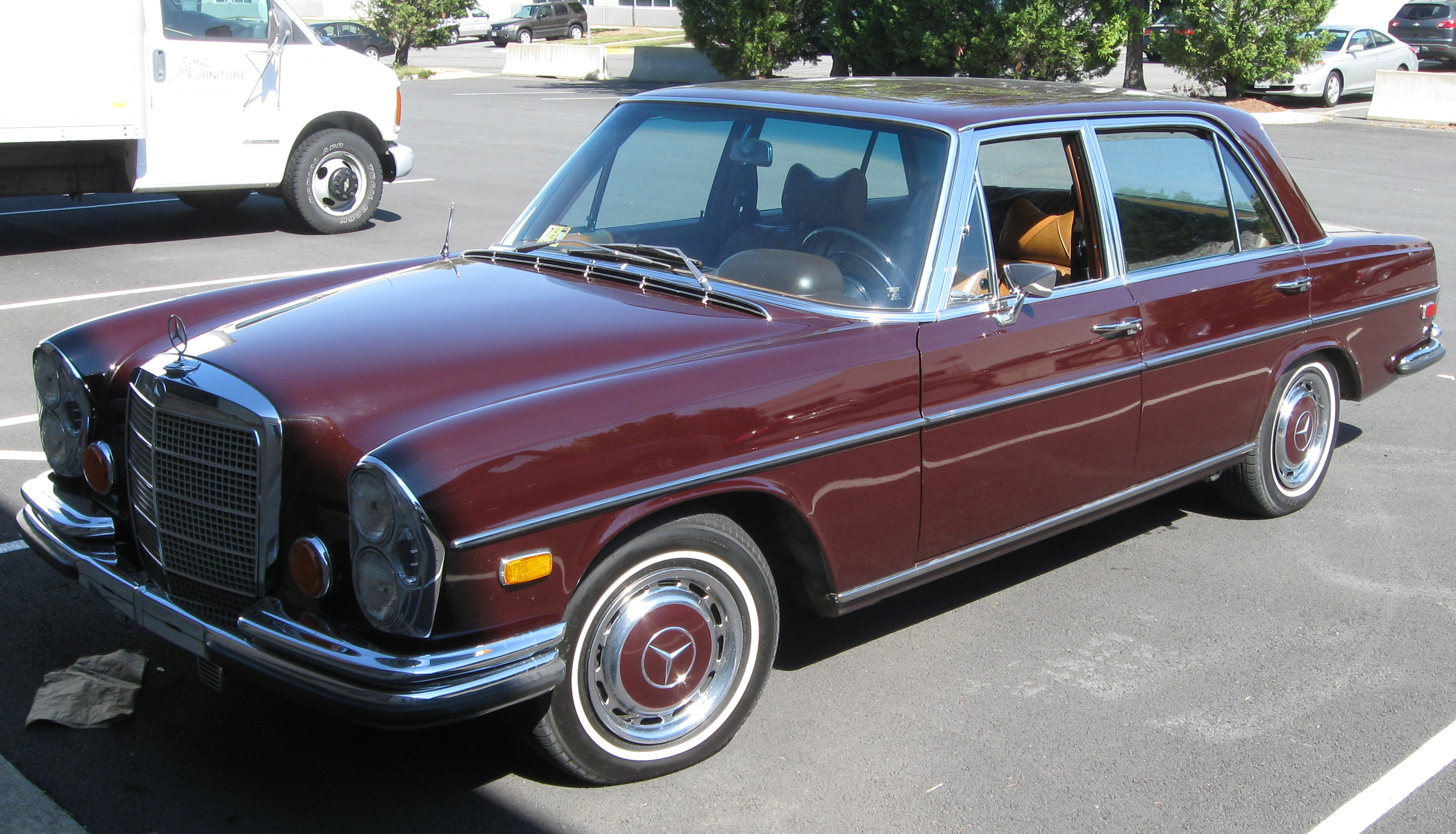 Mercedes-Benz 300SEL 4.5 photographed in Chantilly, Virginia, USA.